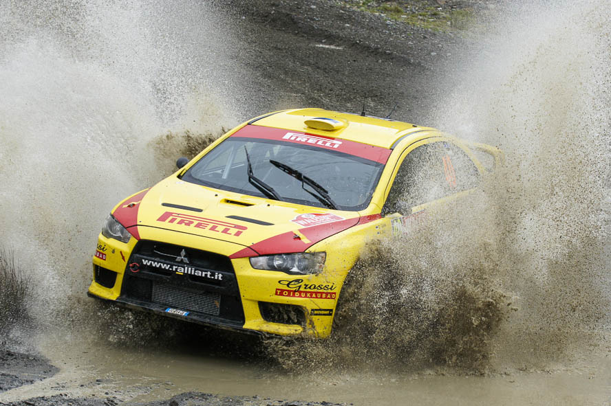 Wales Rally GB 2010 Kuldar Sikk,Mitsubishi Lancer Evolution X,Ott Tänak,Pirelli Star Driver,Rally,Rallye,Sweet Lambs,PWRC